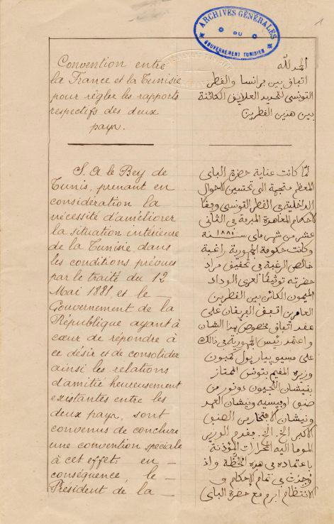 Première page de la convention de la Marsa, Tunisie